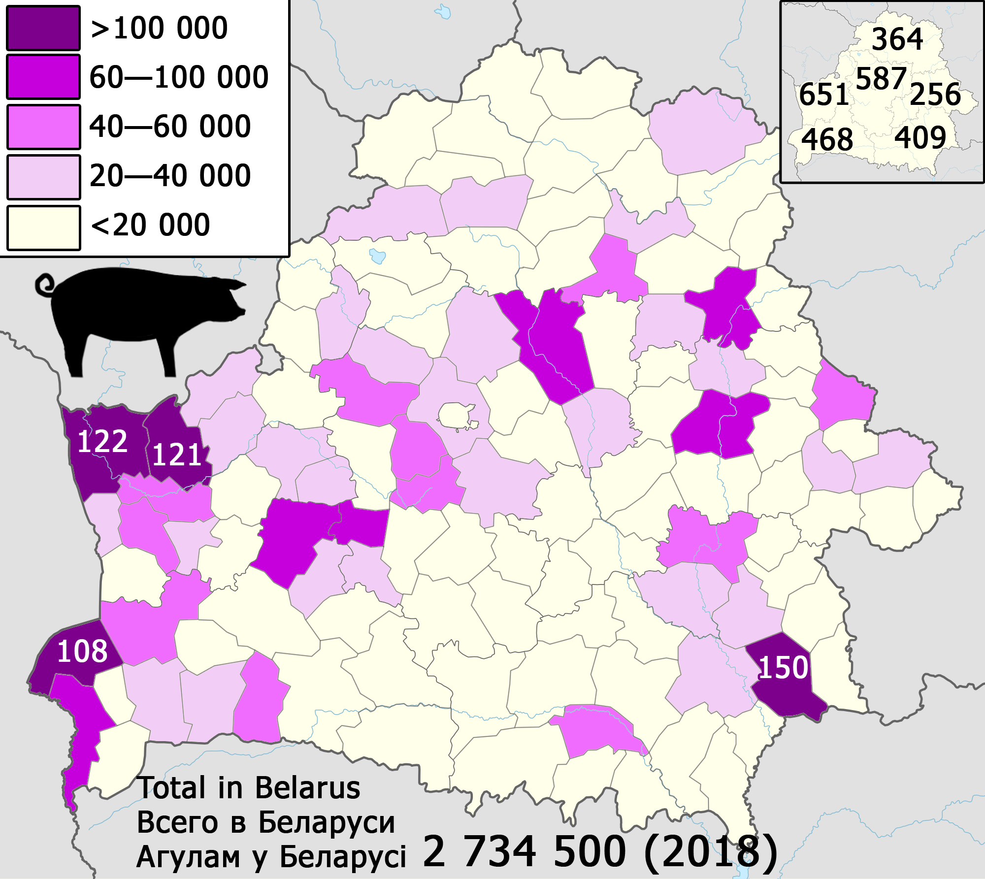 Number of pigs in the collective farms ("agricultural organizations", not to be confused with both organized and unorganized individual farms) in Belarus, 2018